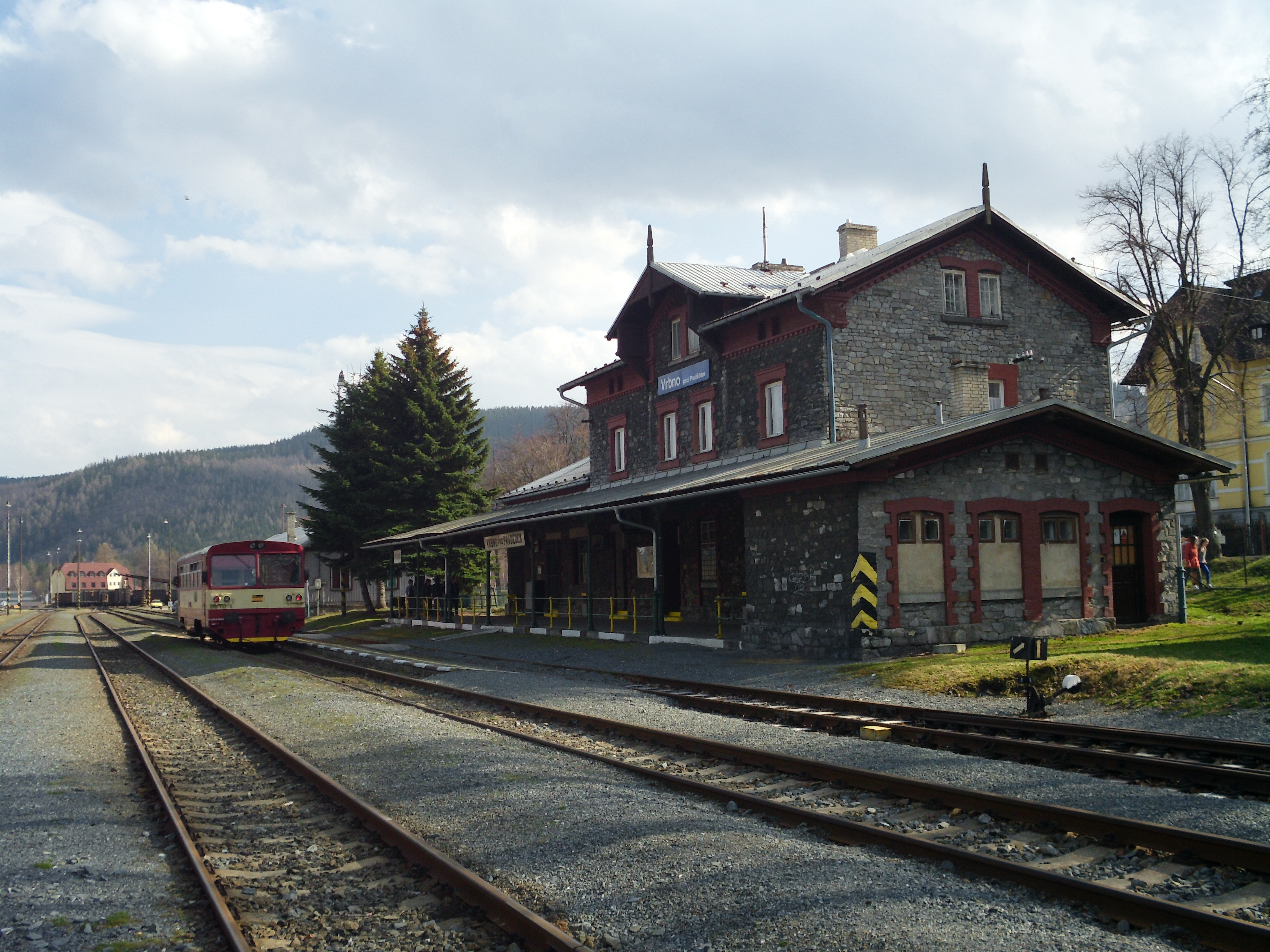 Train station in Vrbno pod Pradědem, Czech Republic